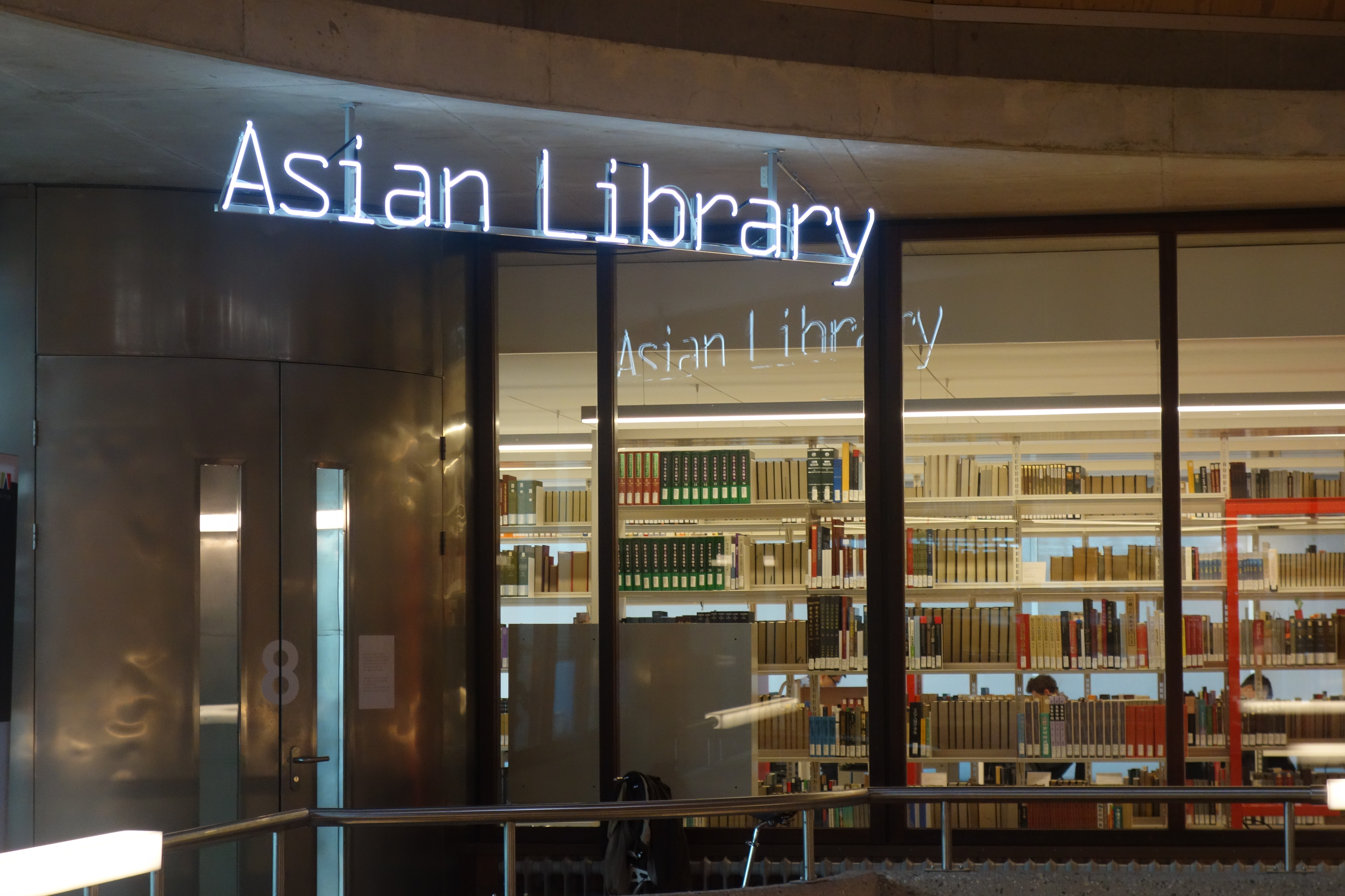 Asian Library, Leiden University (March 2017)